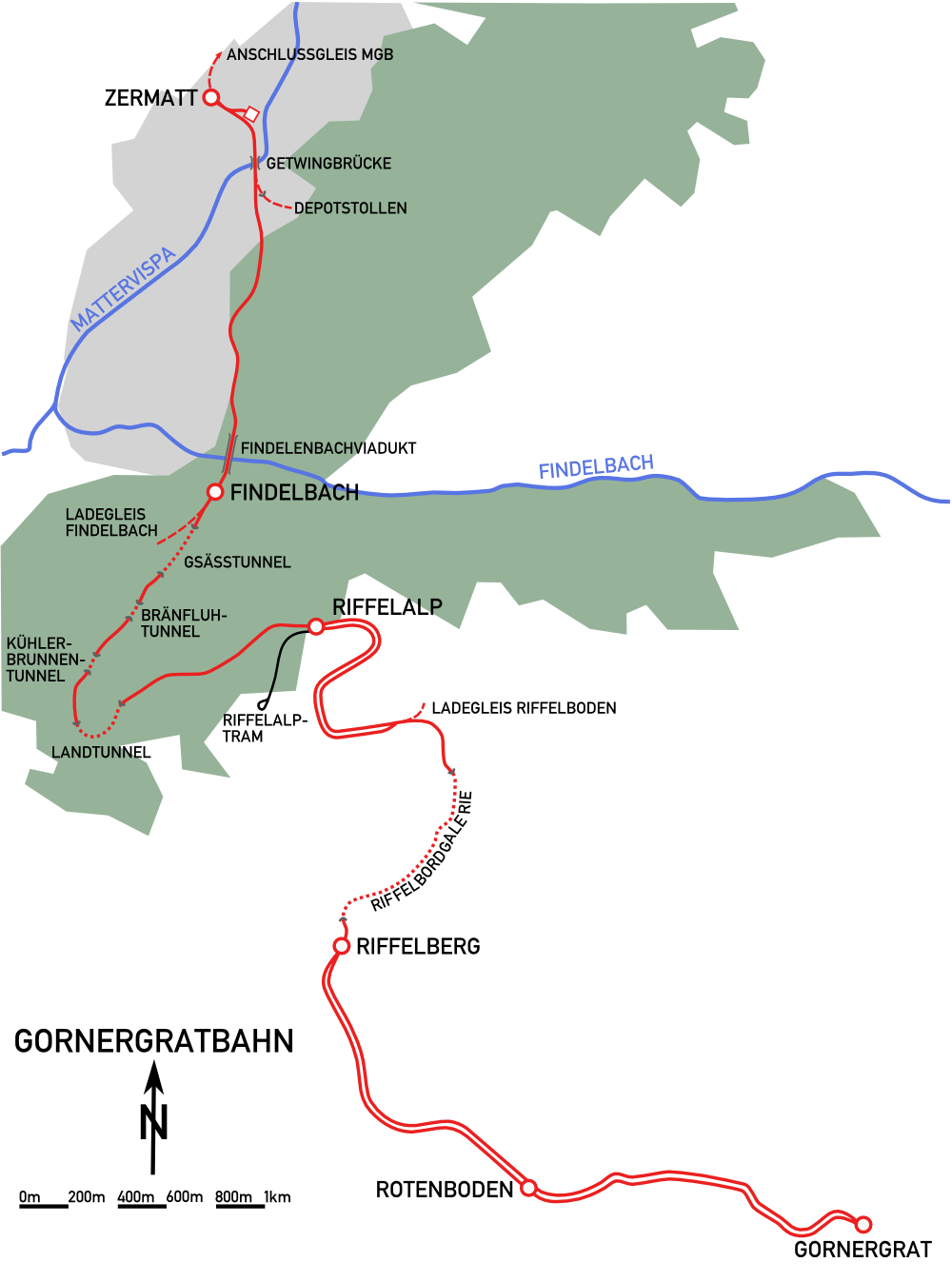 Map of the Gornergrat cog railway. Created and uploaded by Philipp Groß.